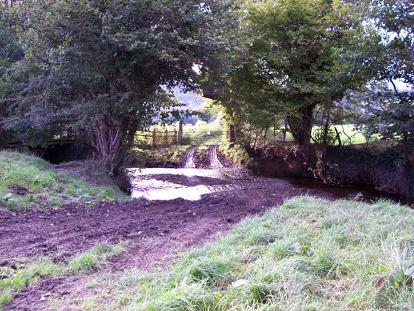 Ford, Afon Roe This ford on the tributary of the Afon Conwy, just above the mean tide level, is the last safe crossing point before soft alluvial sediment makes the ground too treacherous.